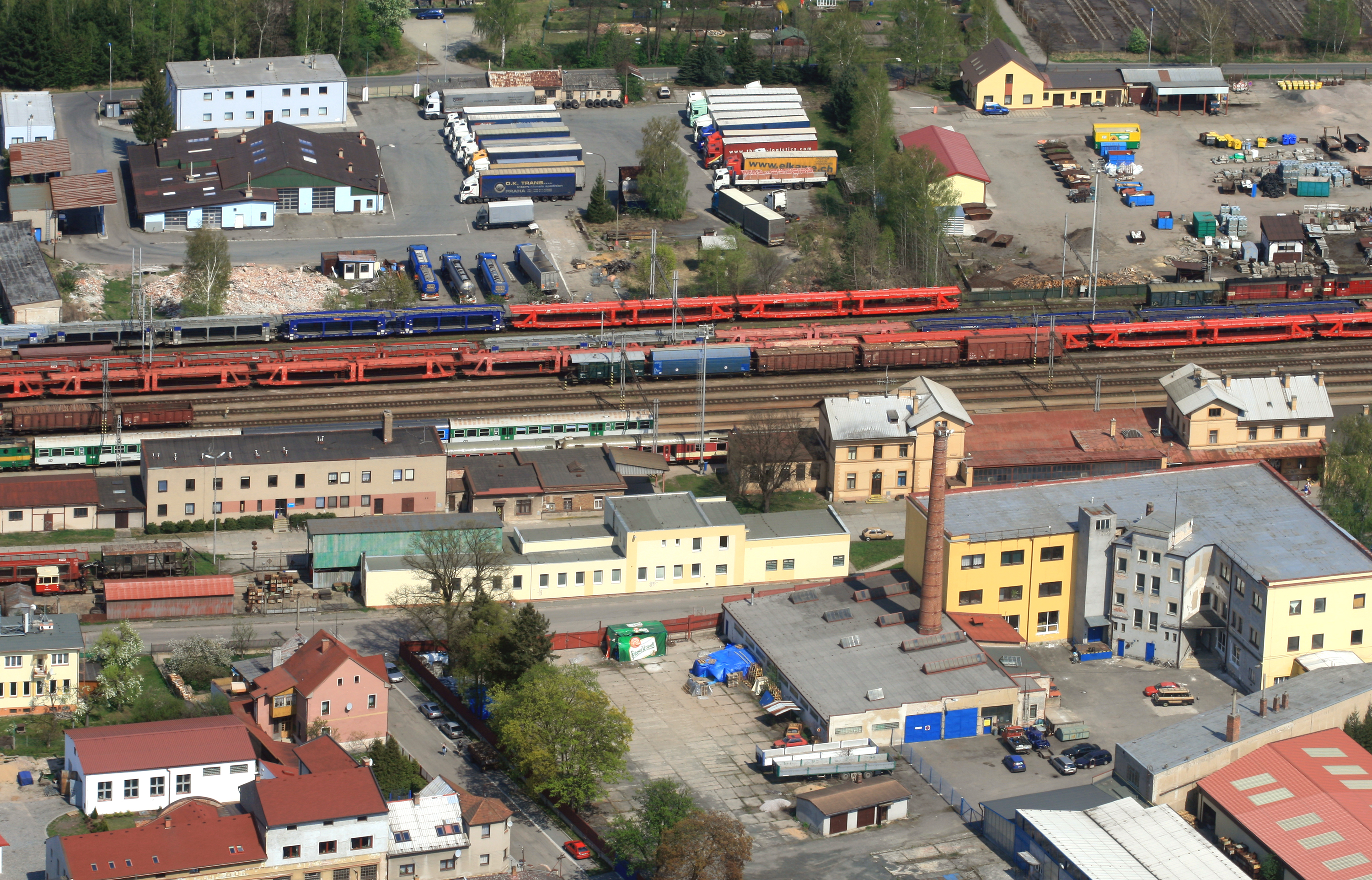 Railway station of town Týniště nad Orlicí from air, eastern Bohemia, Czech Republic